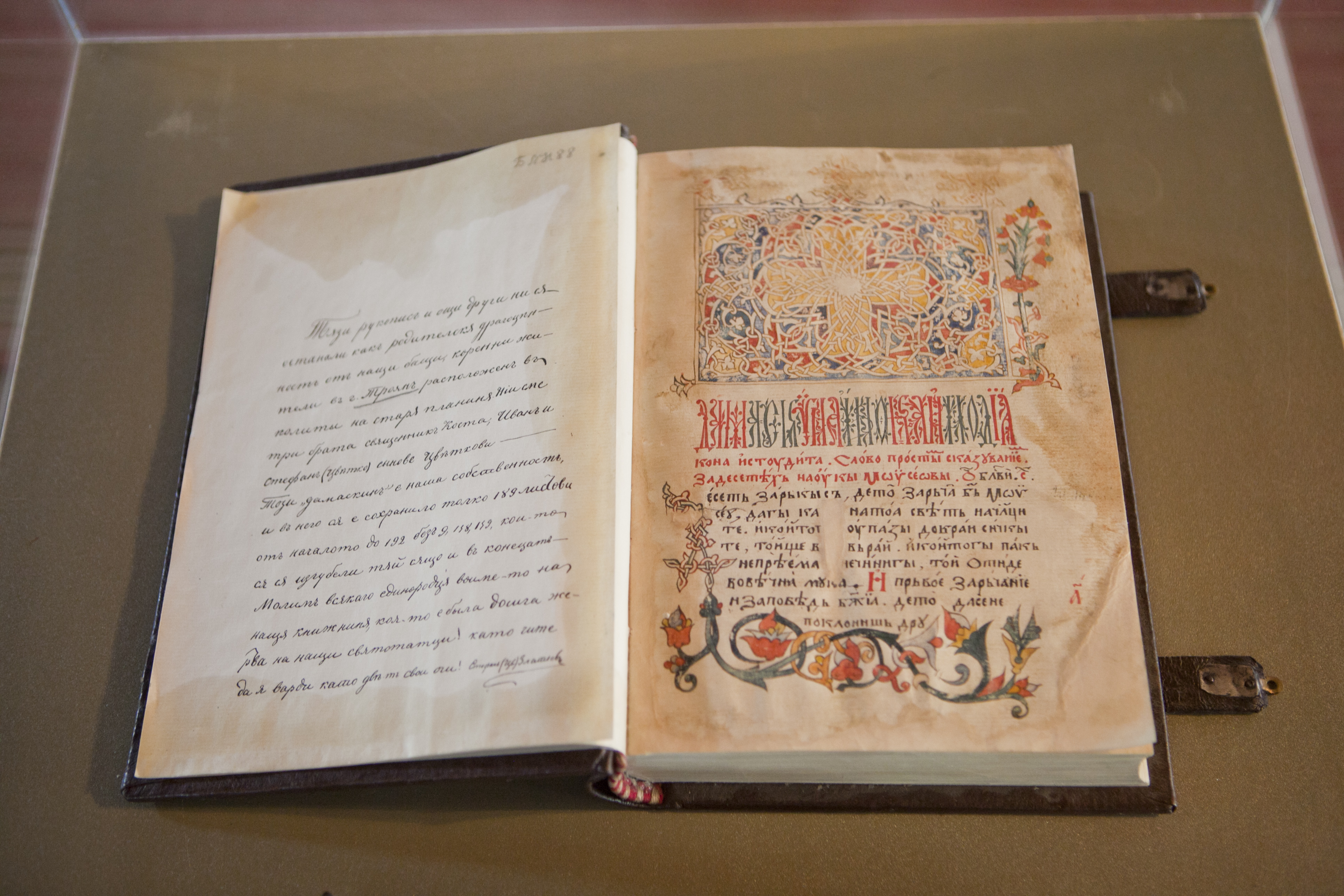 Евангелие от 1577 г., изрисувано в Етрополската книжовно-просветна и калиграфско-художествена школа.